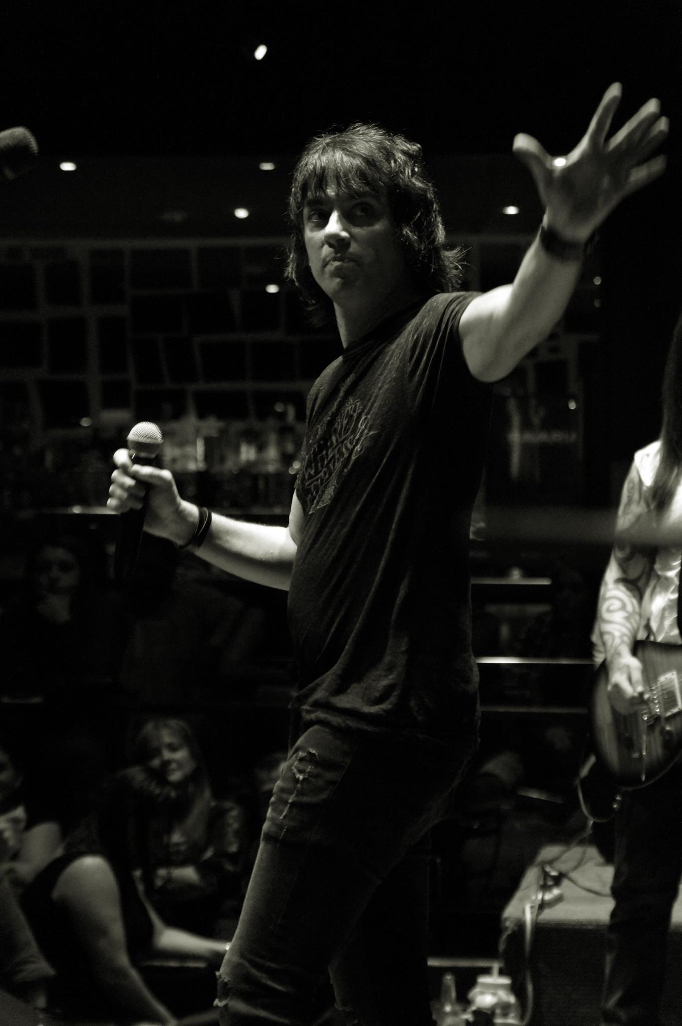 Singer/Songwriter Mario Maisonnave performing at JazzCafe San Jose, Costa Rica, during 2019